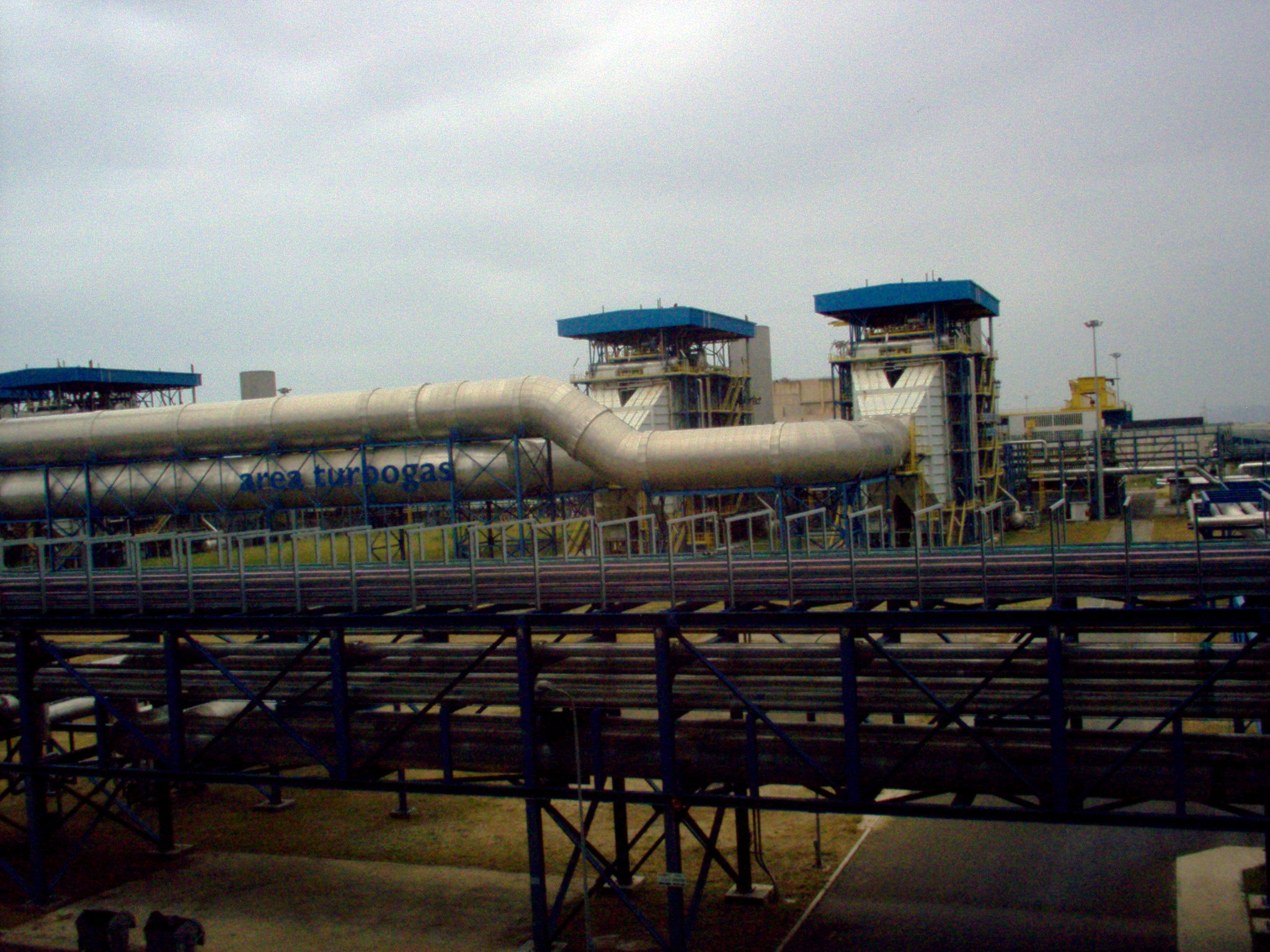 The Montalto di Castro power station (Lazio, Italy) on display during a school trip